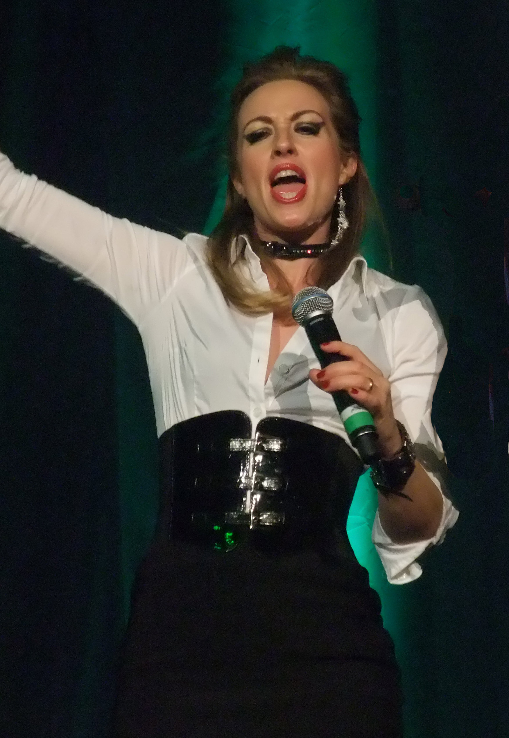 Billie Godfrey of Heaven 17 on stage 13/12/08